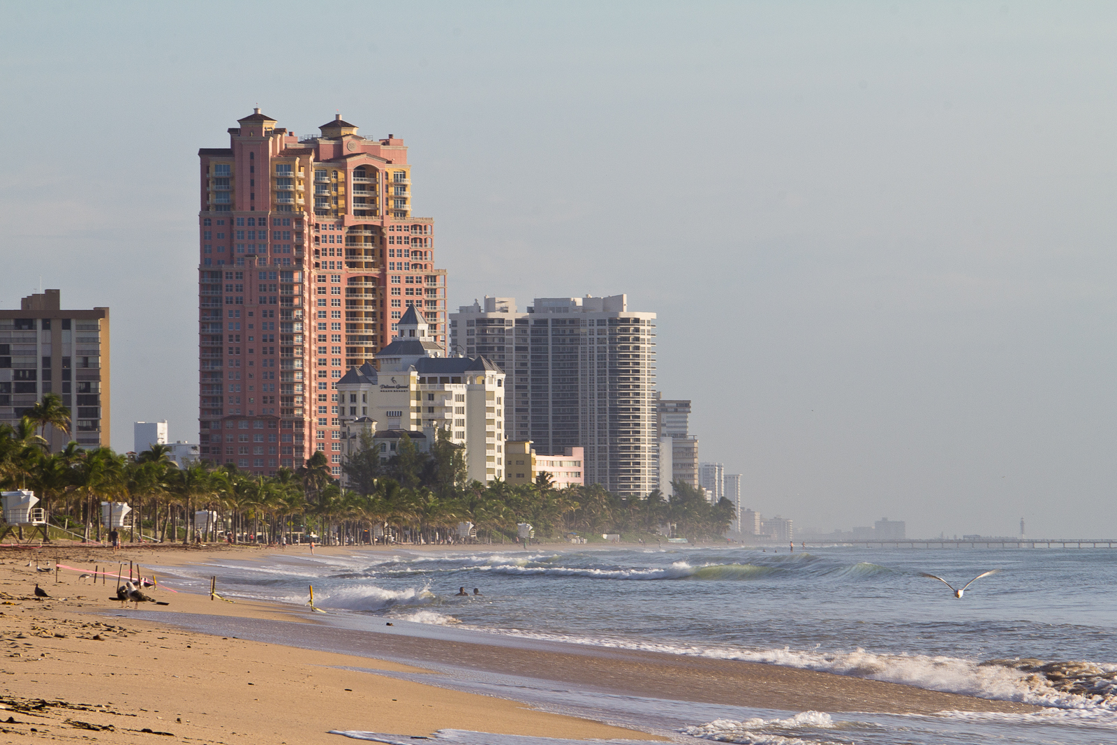 All clear at Fort Lauderdale Beach